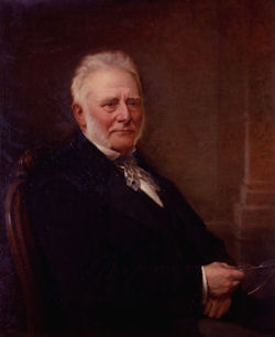 Portrait of William Langton (1803–1881), English banker in Manchester.